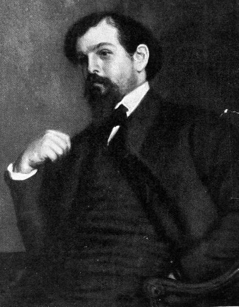 Portrait of composer Claude A. Debussy.